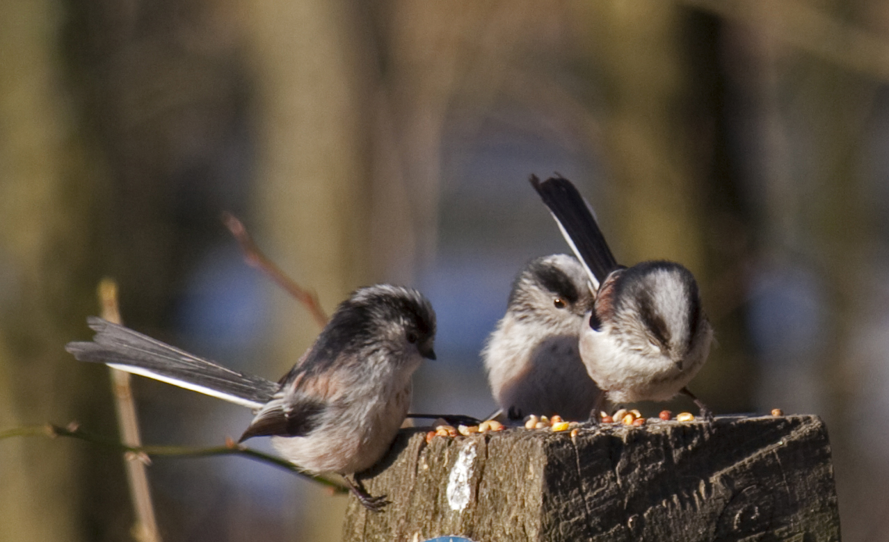 Long Tailed tits 1